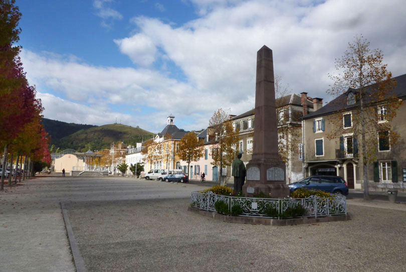 Main square and war memorial in Mauléon-Licharre, Pays Basque/Aquitaine